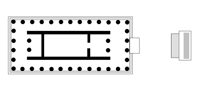 Floor plan of the original Temple of Ares in the ancient agora of Athens, Greece